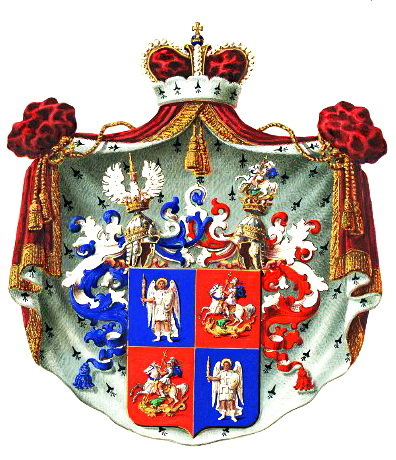 Svyatopolk-Myrsky